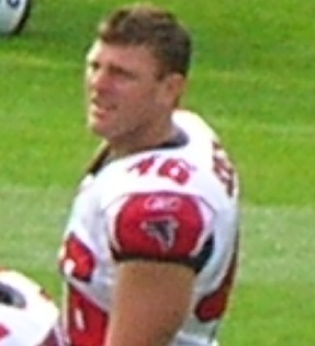 The Atlanta Falcons take the field at Oakland Coliseum prior to a road game against the Oakland Raiders. The Falcons won 24-0.